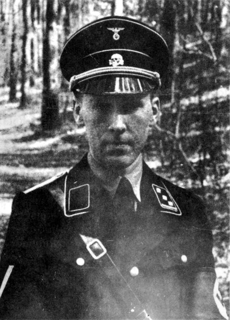 Bruno Kurt Schultz (1901-1997), hier in der schwarzen Vorkriegsuniform der Allgemeinen SS als SS-Obersturmführer. Der leere rechte Kragenspiegel verweist auf dessen organisatorische Zuordnung zum Rasse- und Siedlungshauptamt hin.